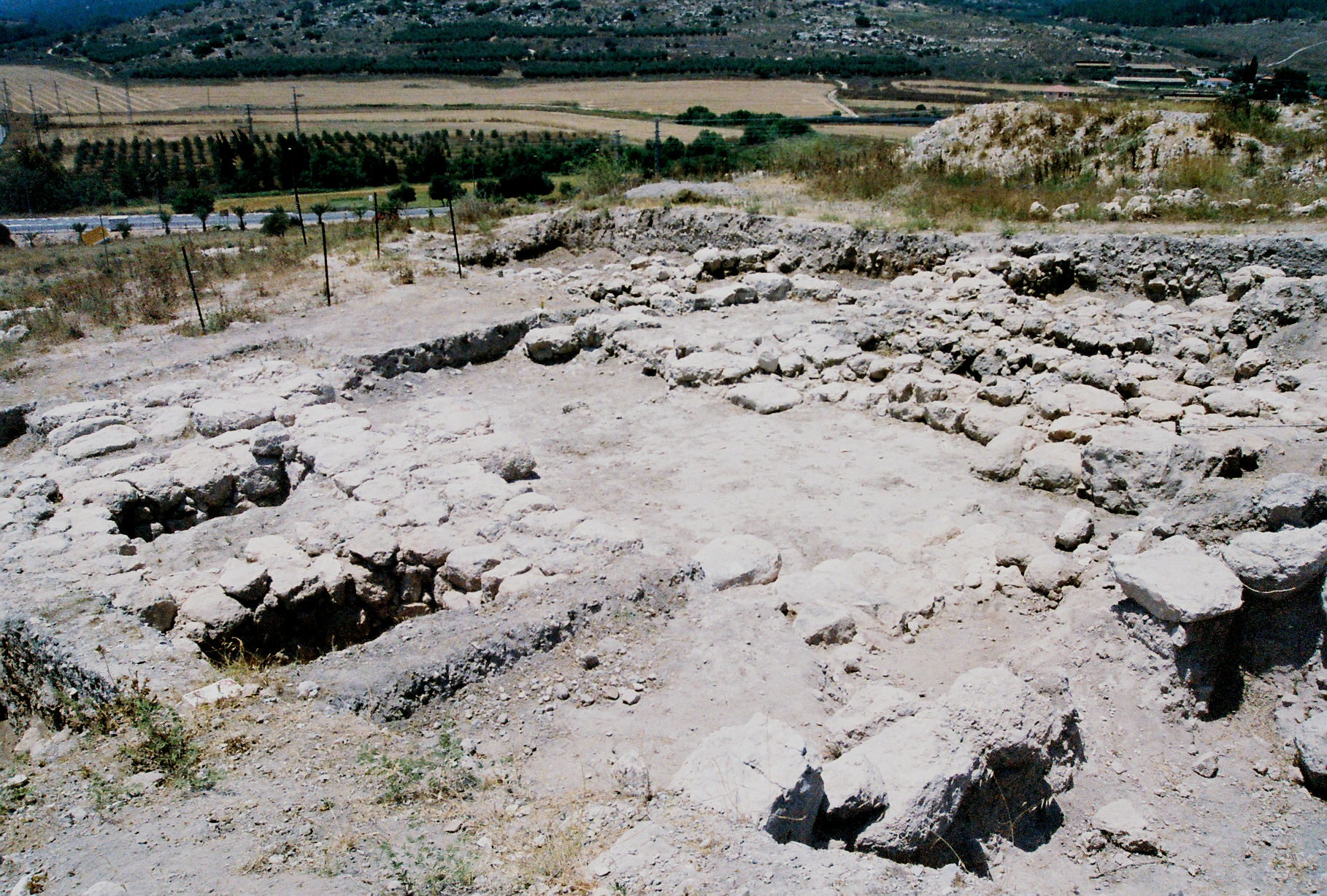 Middle Bronze gate system at Tel Beth-Shemesh, June 2006.